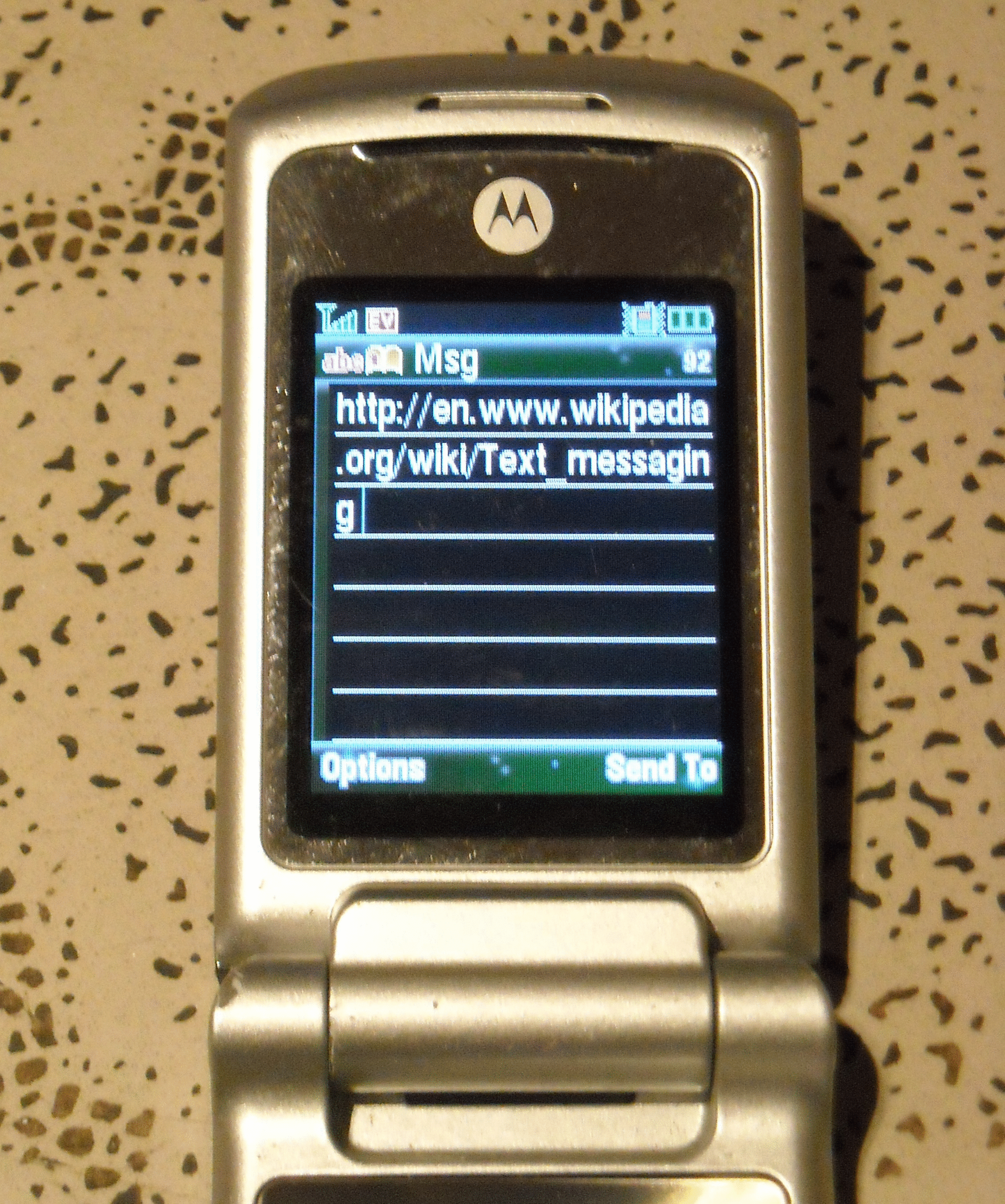 mobile phone text message